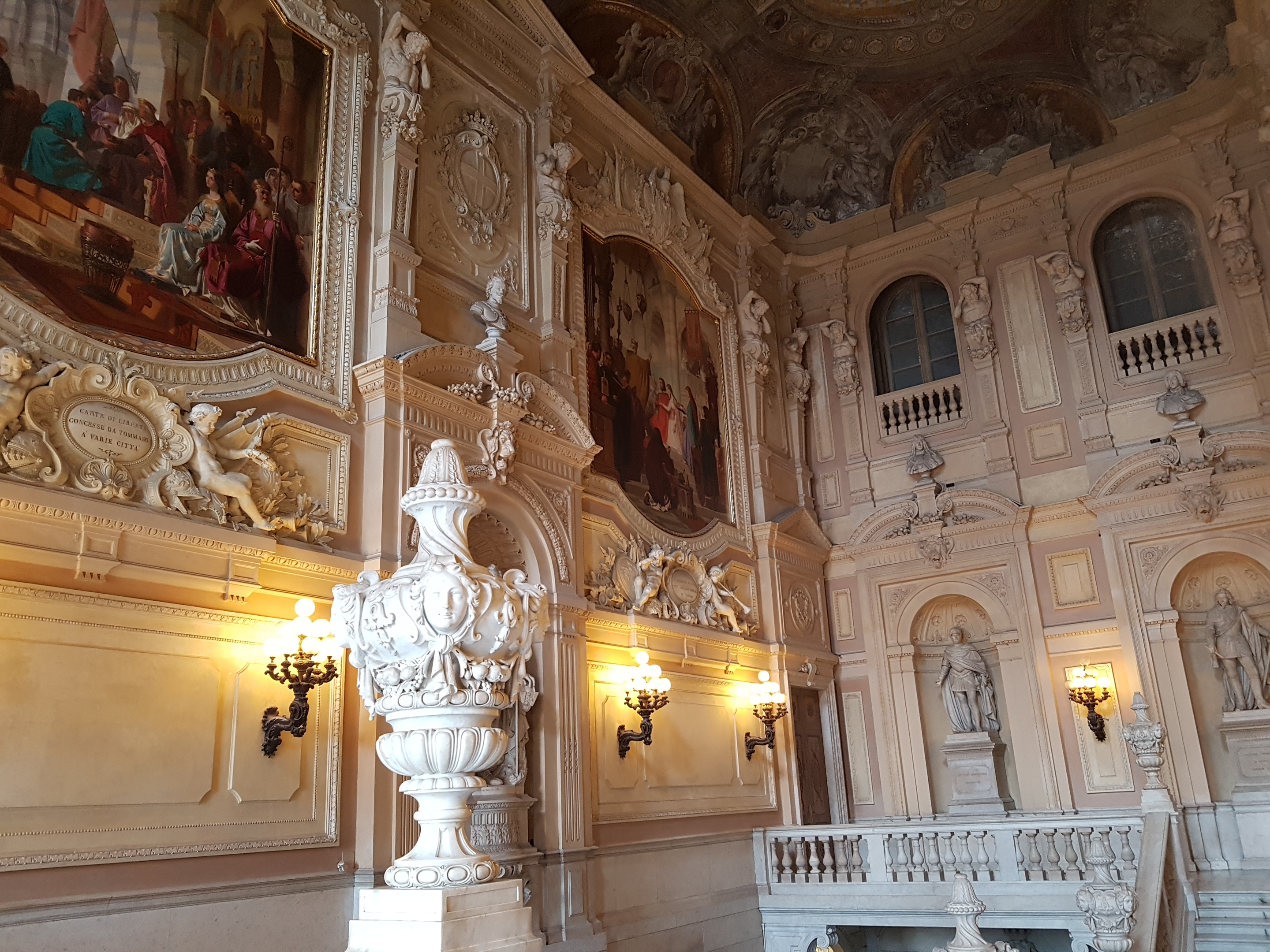 Royal Staircase, Royal Palace of Turin, Northern Italy